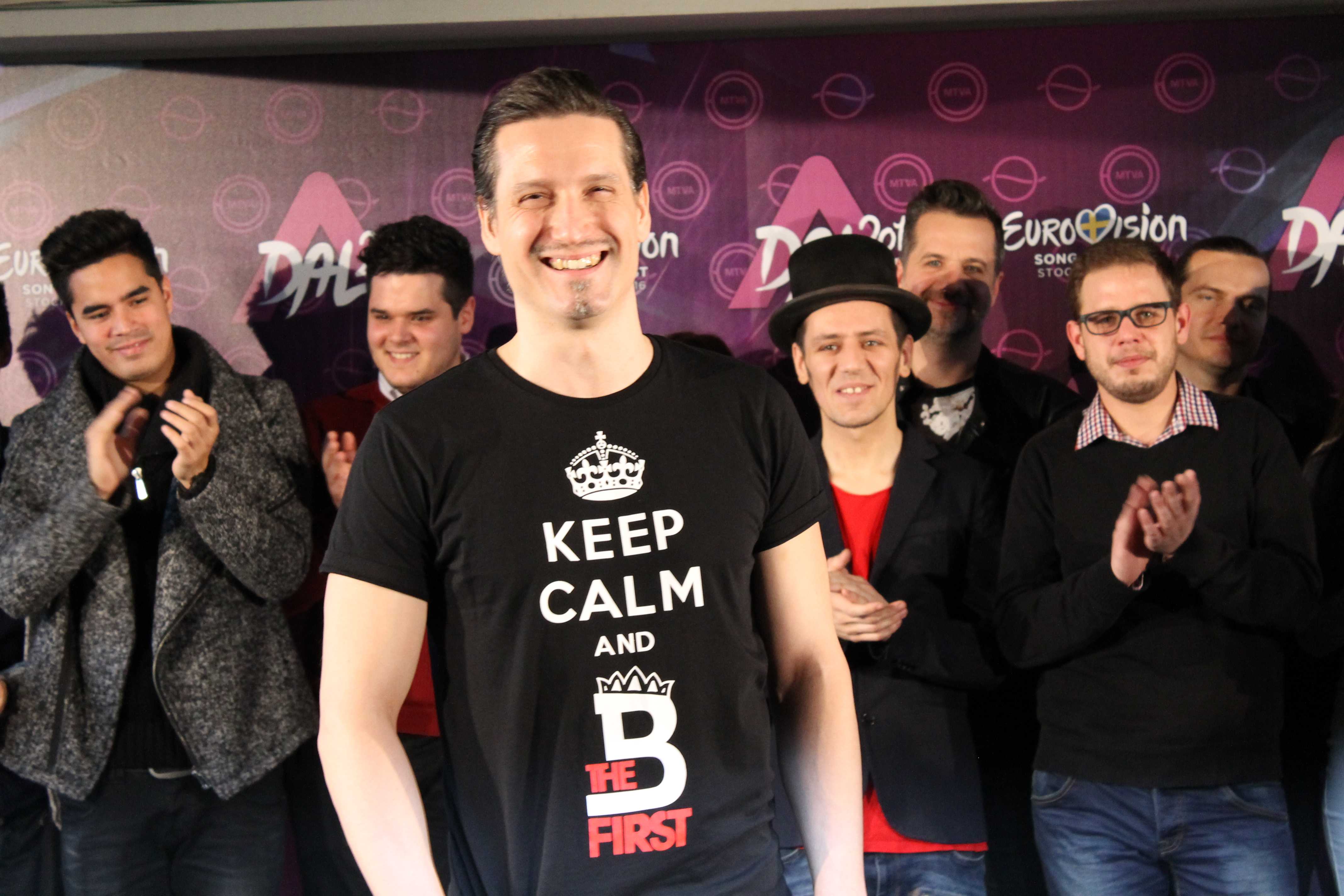 A Dal 2016 participant: B the First (pictured above Barna Pély)